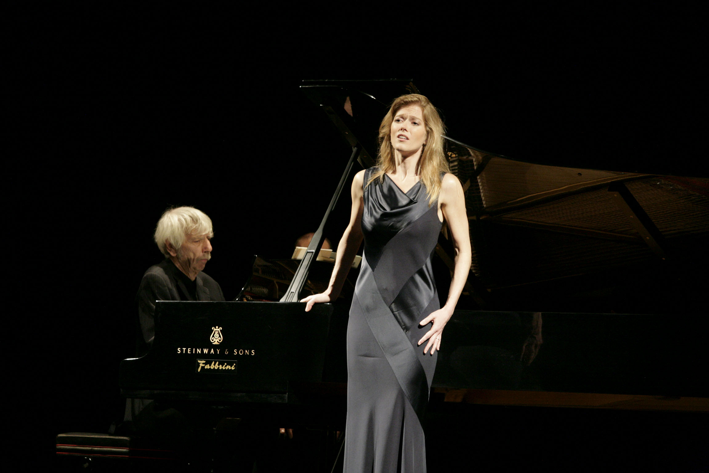 Barbara Hannigan, soprano, Reinbert de Leeuw, piano